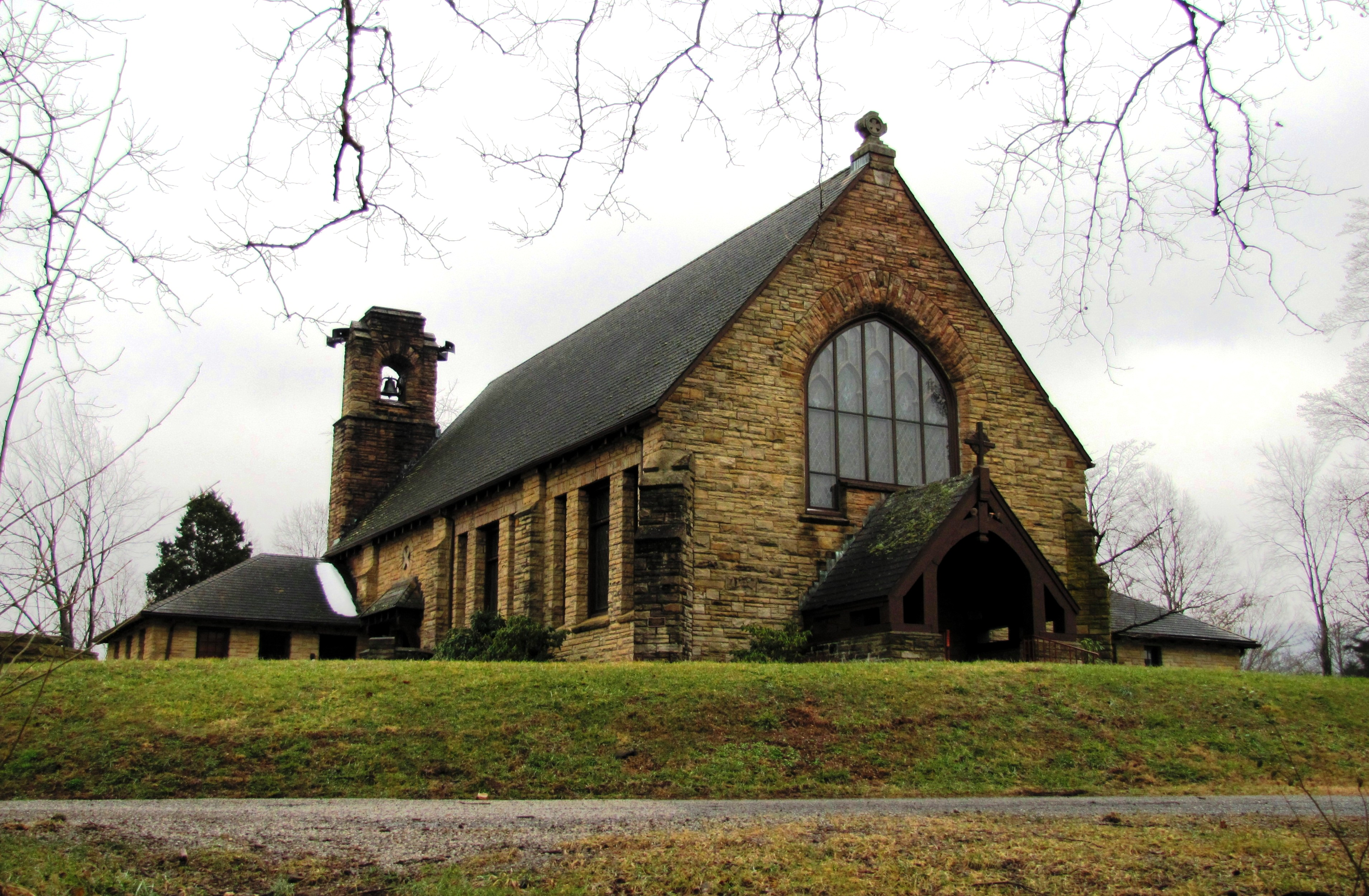 The Christ Church Presbyterian building, situated on the old Alpine Institute campus in Alpine, Tennessee, USA. The church was built by the school's mission in 1934, and although the school has closed, a congregation still meets here.